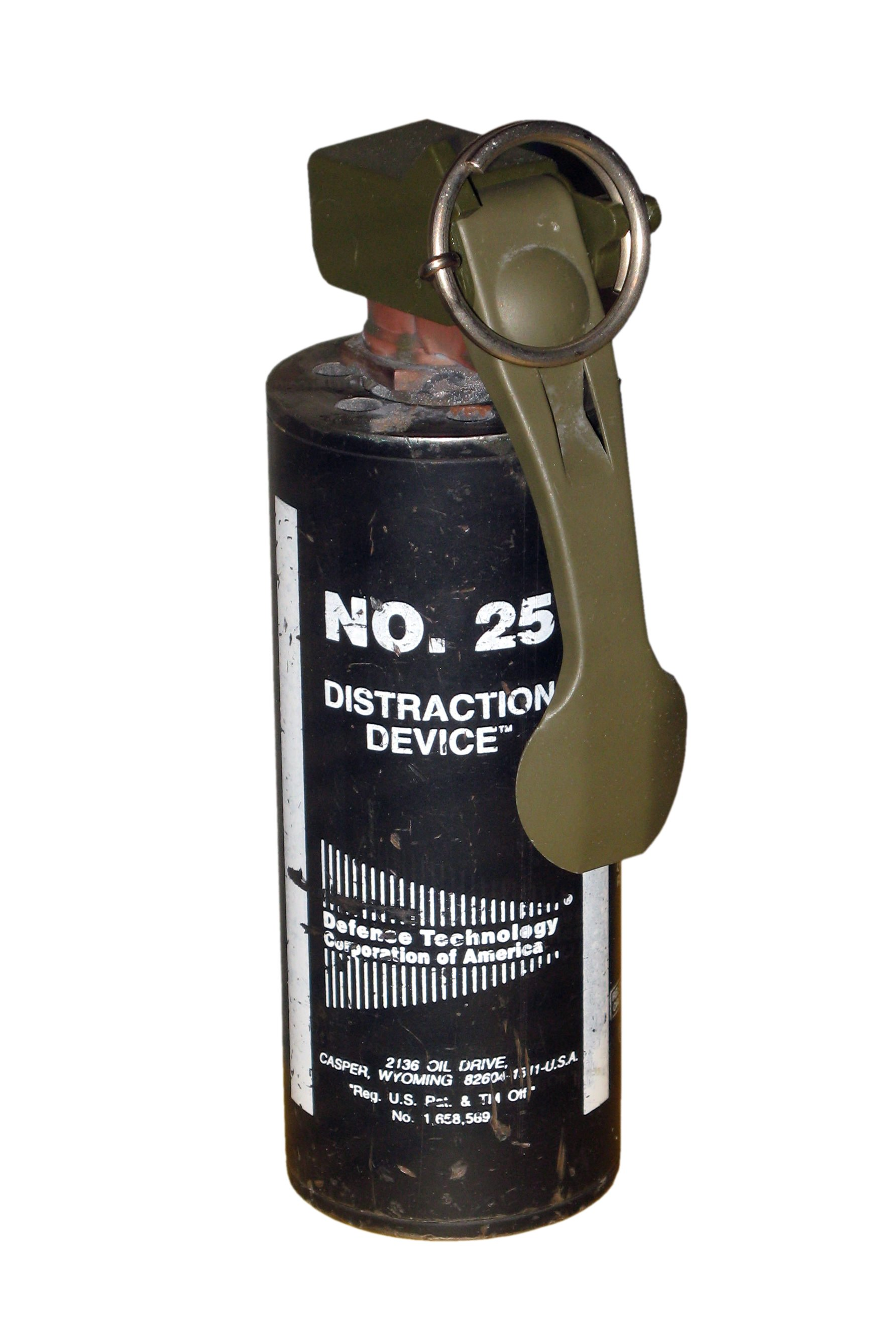 Distraction device